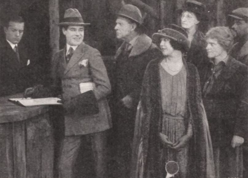 Still from the American comedy film Is Matrimony a Failure? (1922) with T. Roy Barnes, Charles Stanton Ogle, and Lila Lee, on page 65 of the May 6, 1922 Exhibitors Herald.